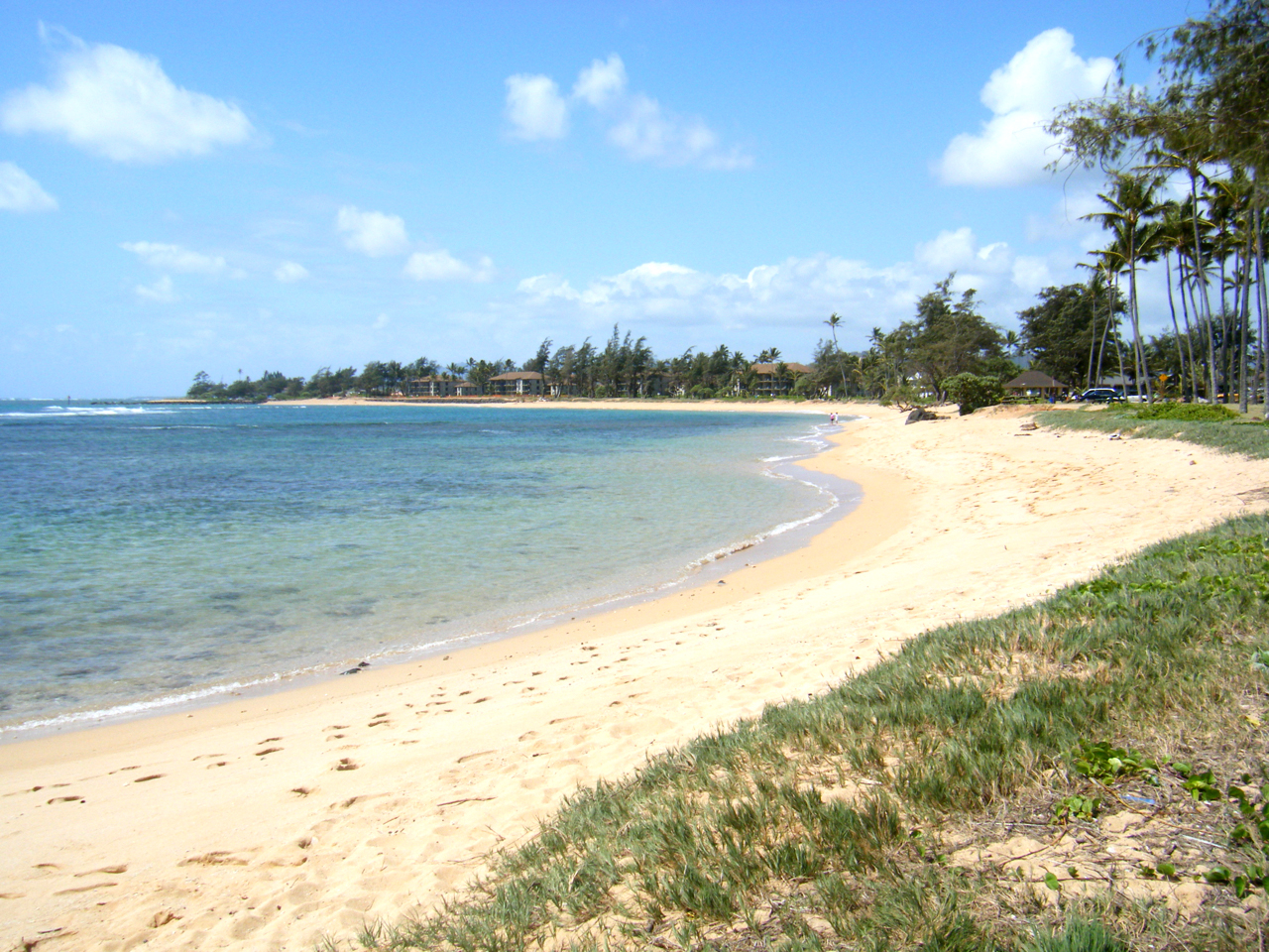 Kapa'a Beach looking south